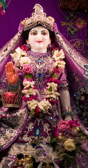 Rukmini-Dwarakadisa deities, present at New Dwarka Hare Krishna temple, Los Angeles.